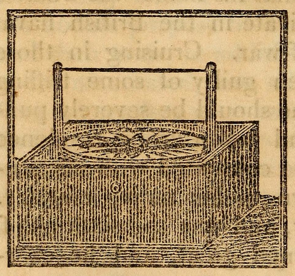 The Antelope's compass from a 1783 wreck on Lord North's Island . Given to a crew member of the Ship Mentor wrecked there when overtaken by a Violent Storm in 1832. Taken from the book The tragedy of the seas; or, Sorrow on the ocean, lake, and river, from shipwreck, plague, fire and famine published (1848). First published 1841.